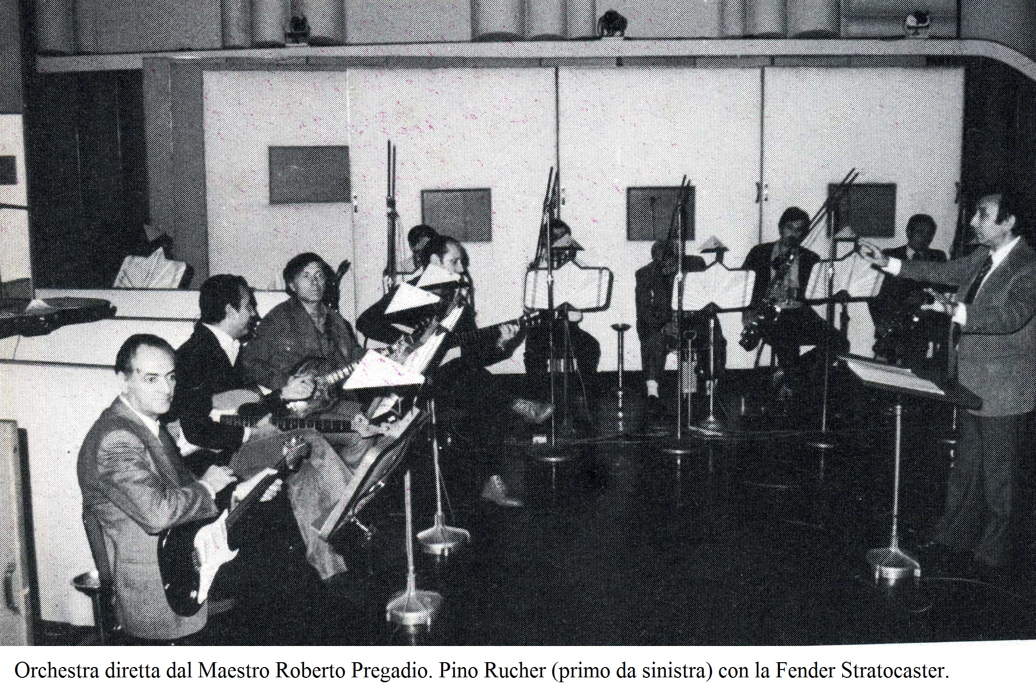 The RAI Orchestra directed by Master Roberto Pregadio (first from right). From left: Pino Rucher with his Fender Stratocaster next to bass guitarist Maurizio Majorana, Sergio Coppotelli (third from left) and Mario Gangi (fourth from left) at the classical guitar.